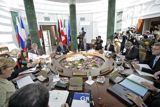 President George W. Bush participates in a working session at the G8 Summit in Strelna, Russia, Sunday, July 16, 2006.